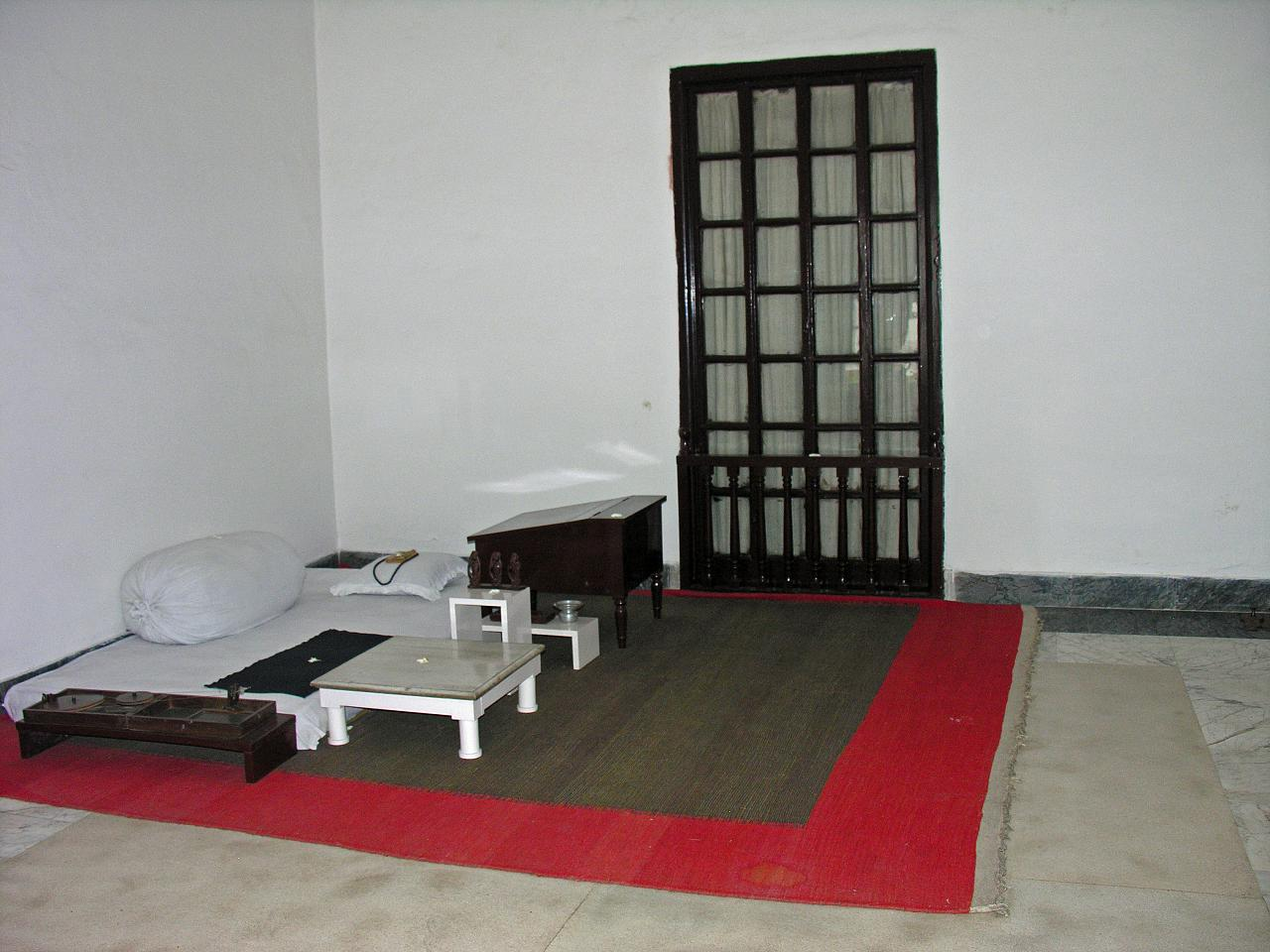 This is the room he stayed in while here.